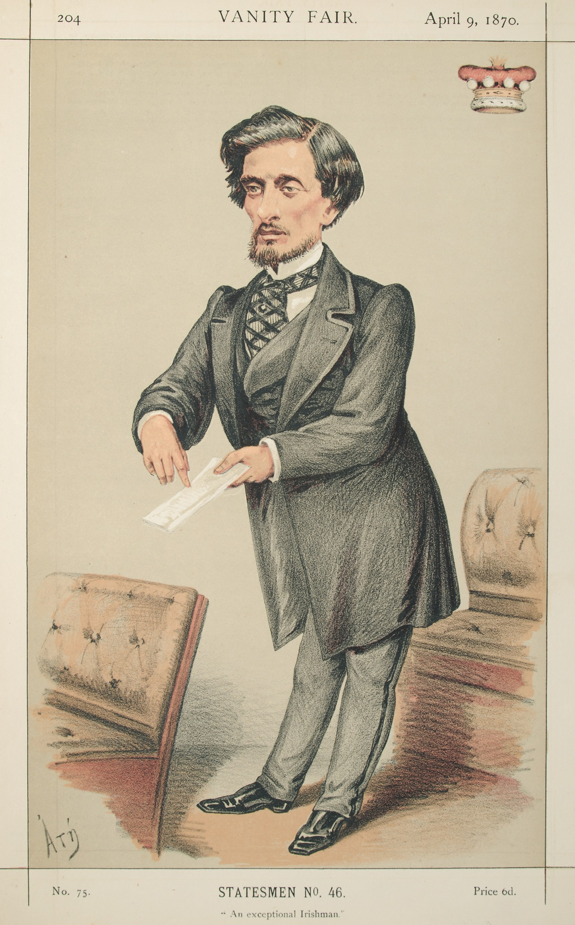 Statesmen No.46: Caricature of Lord Dufferin. Caption reads: "An exceptional Irishman."